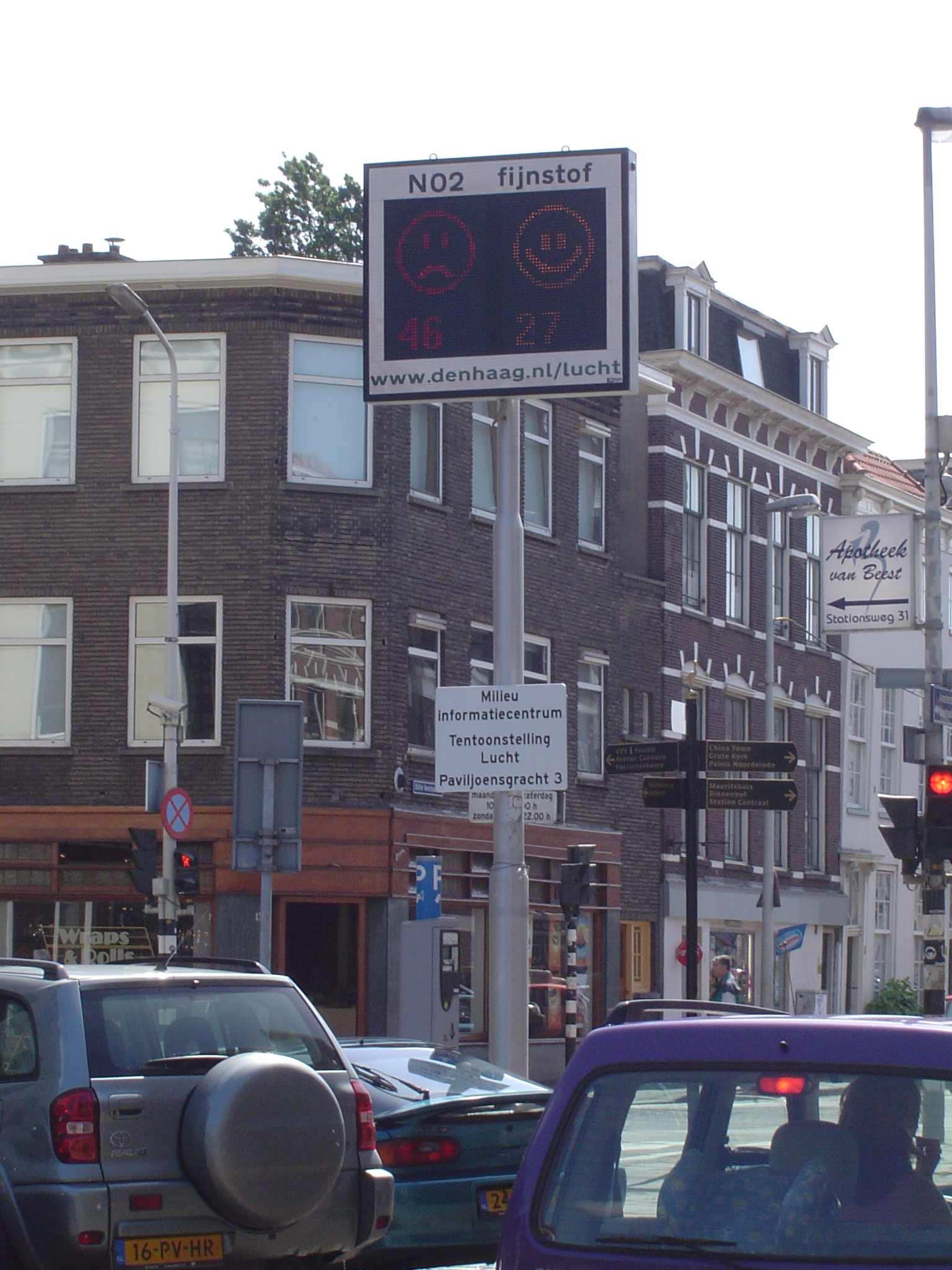 Measuring device for fine dust in the air. Amsterdamse Veerkade, The Hague, The Netherlands